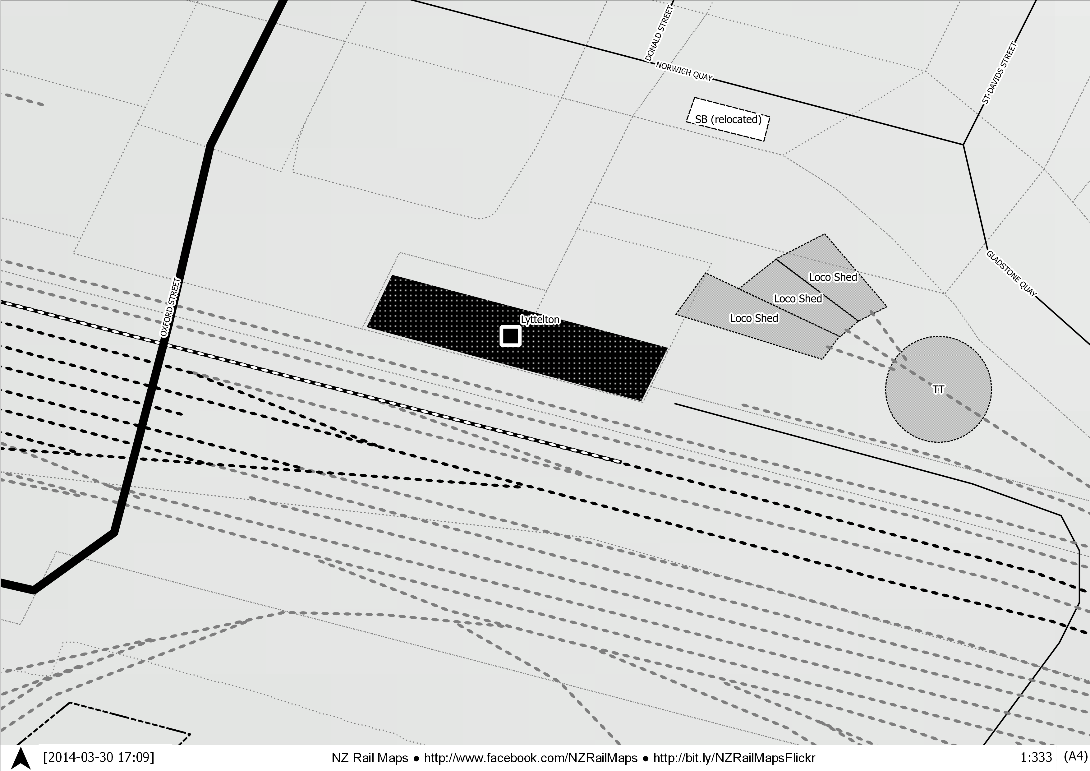 Map of Lyttelton Railway Station, Christchurch, New Zealand.